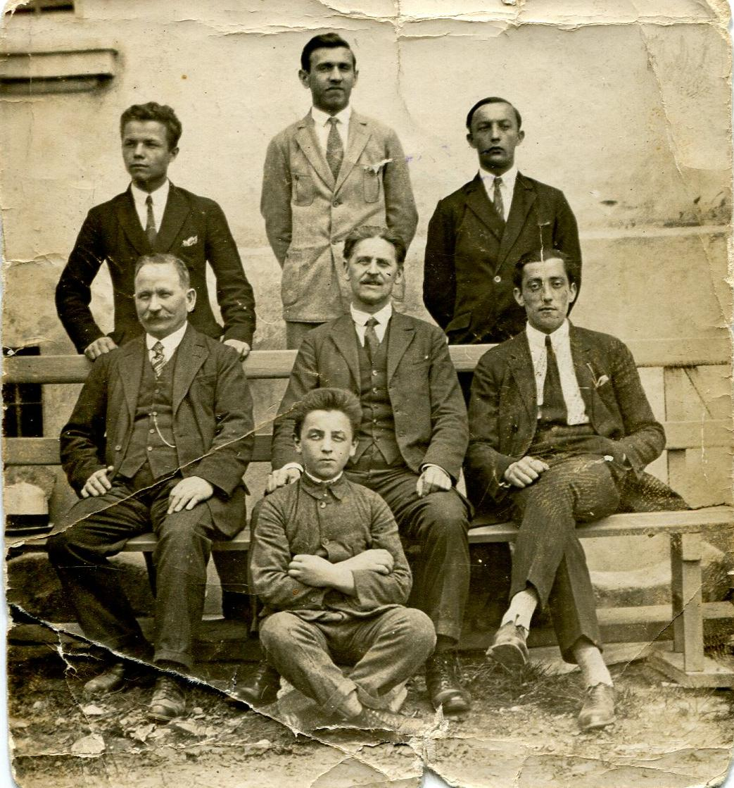 Gilders from Lwow, Poland